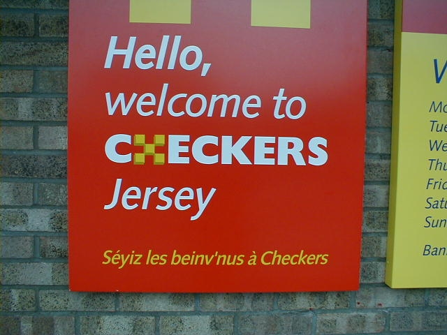 Bilingual signage in English and Jèrriais outside a Jersey supermarket.